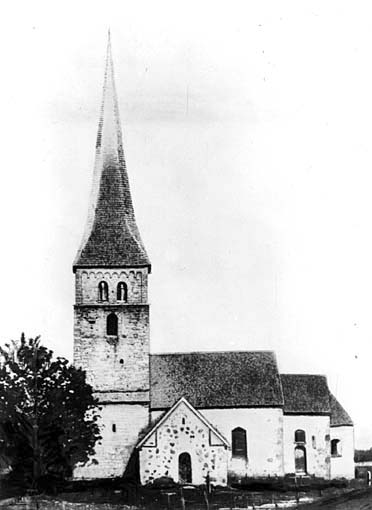 Church of Högby in Östergötland, Sweden, prior to 1870